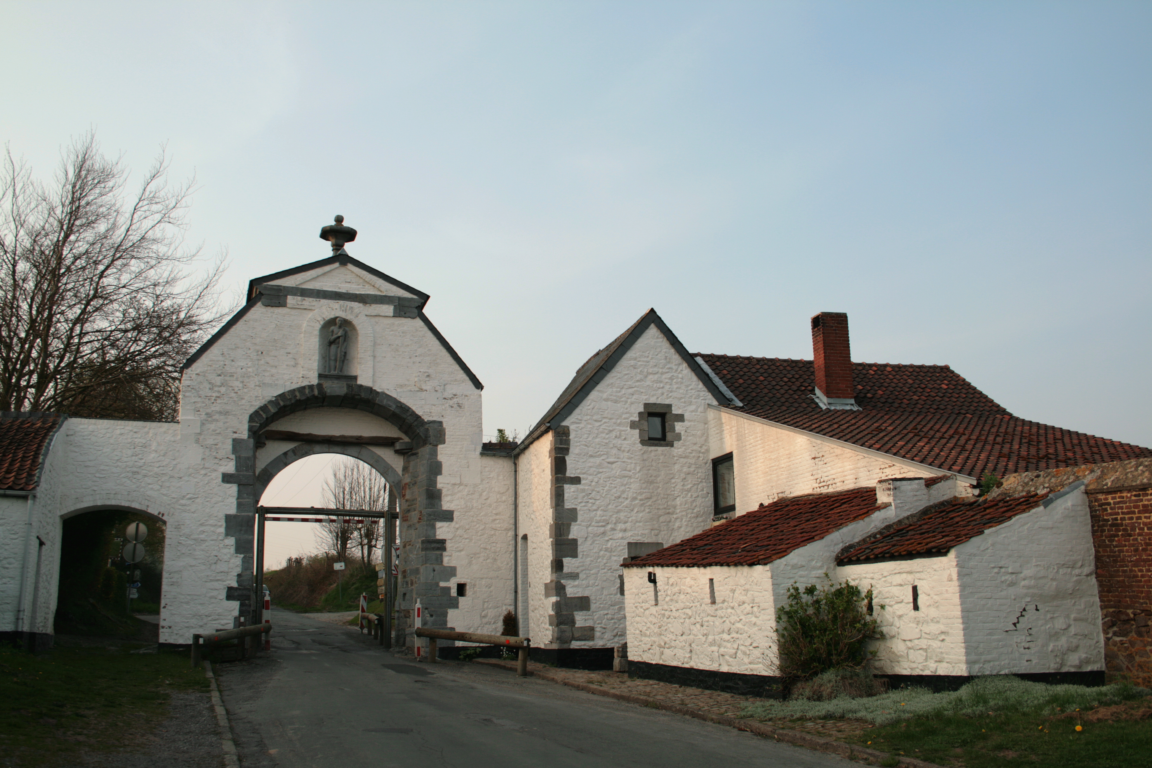 Lobbes (Belgium), la Portelette - Portal of the former abbey (XVIIth century).